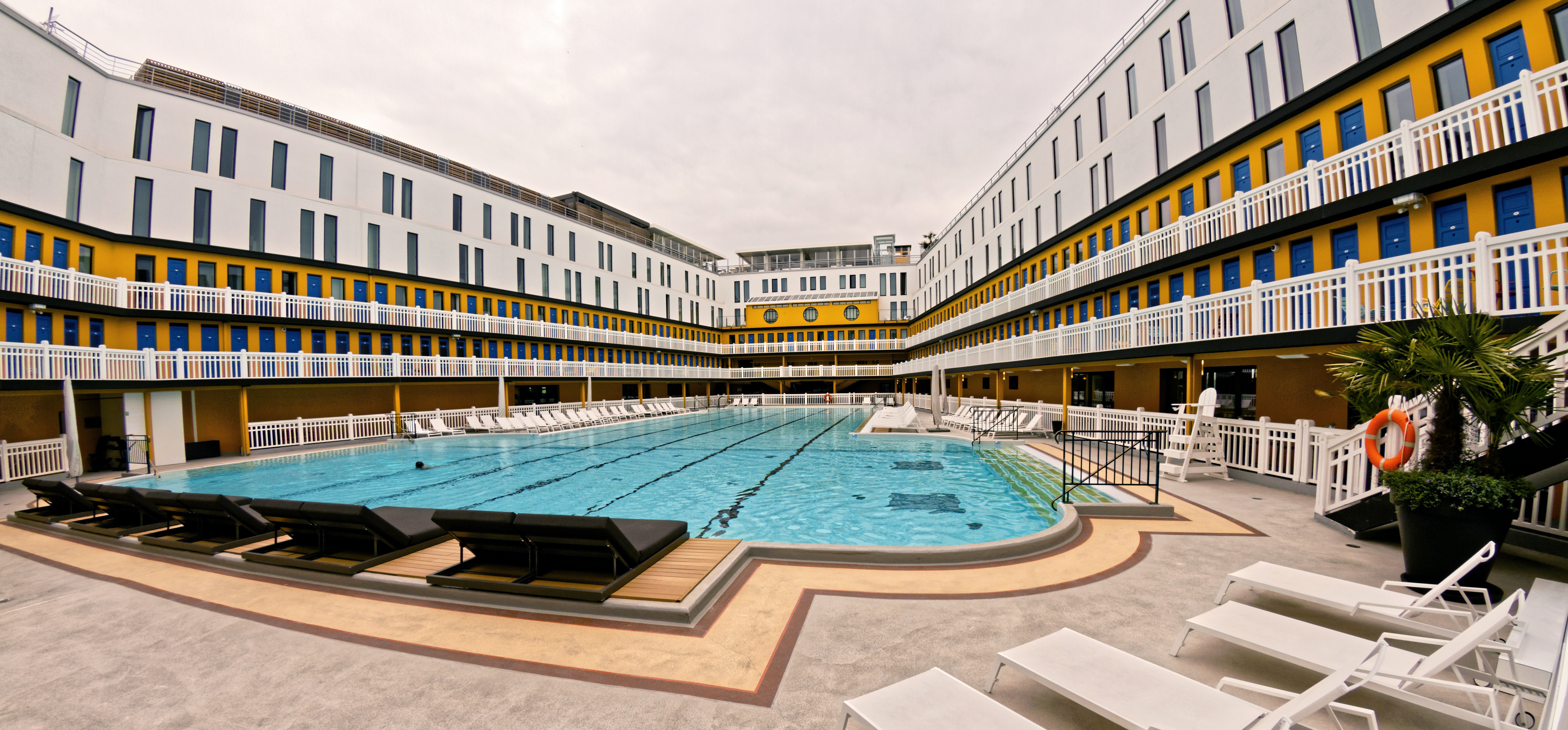 Summer pool at the Molitor in Paris.